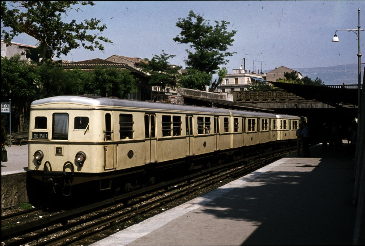 A 5th batch EMU at Thisseio metro station, ISAP, Athens